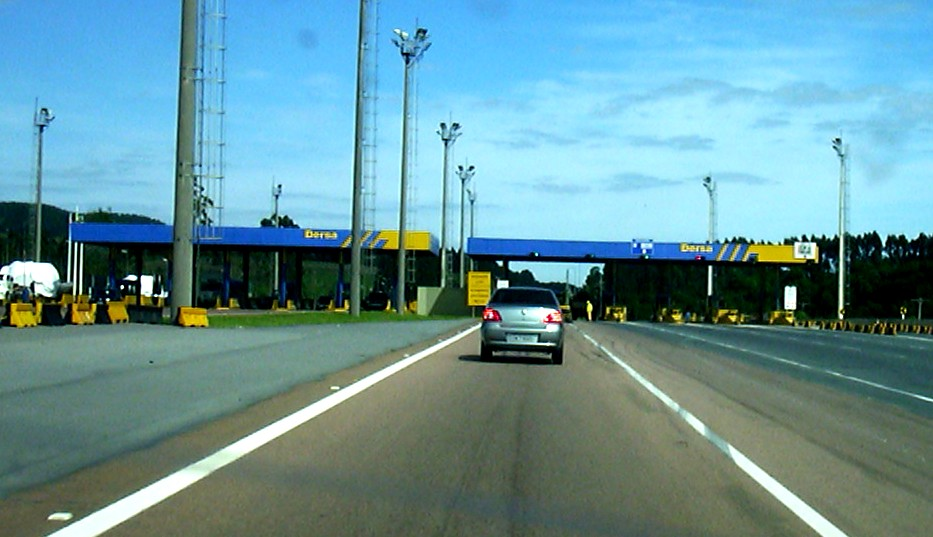 A typical highway toll gate (in this case, a DERSA station in the Dom Pedro I Highway near the city of Itatiba, state of São Paulo, Brazil. Photographed on 11.Nov.2005 by Renato M.E. Sabbatini, PhD.